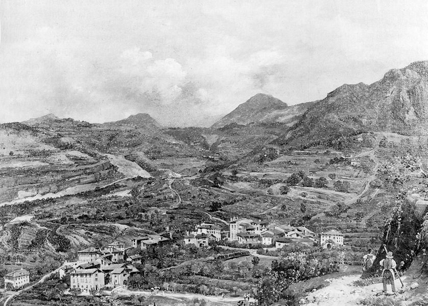 Oltrecastello in un dipinto del 1800